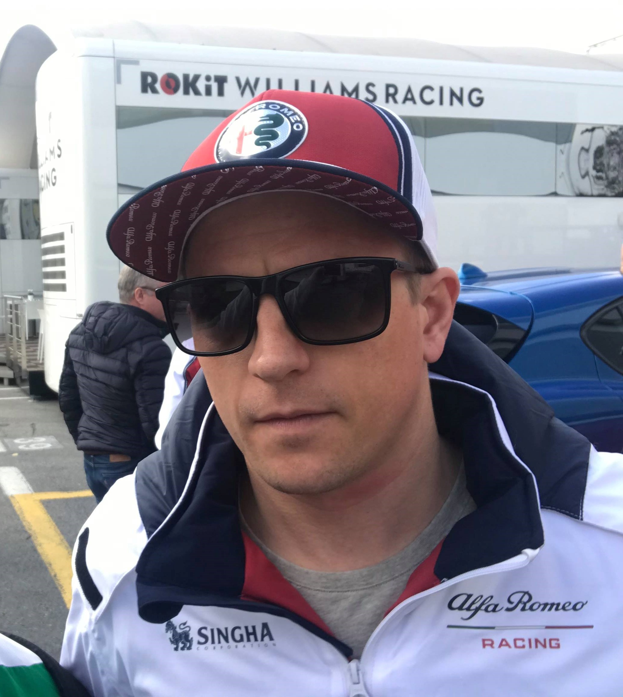 2019 Formula One tests Barcelona, Räikkönen.